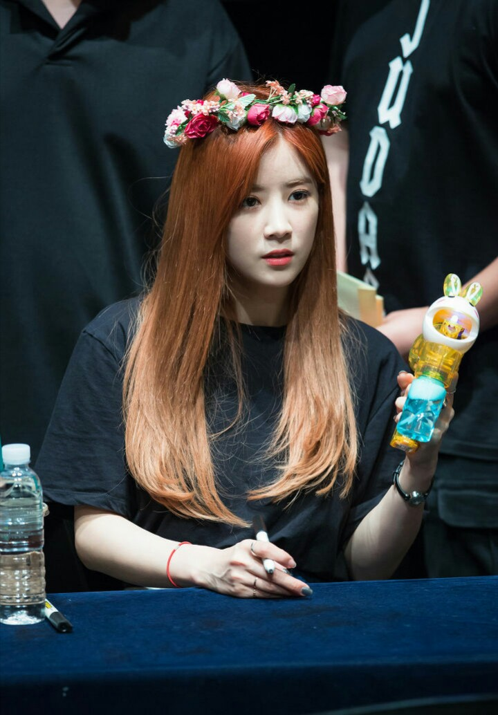 Park Cho-rong during a fansign event in Gangnam on August 3, 2017